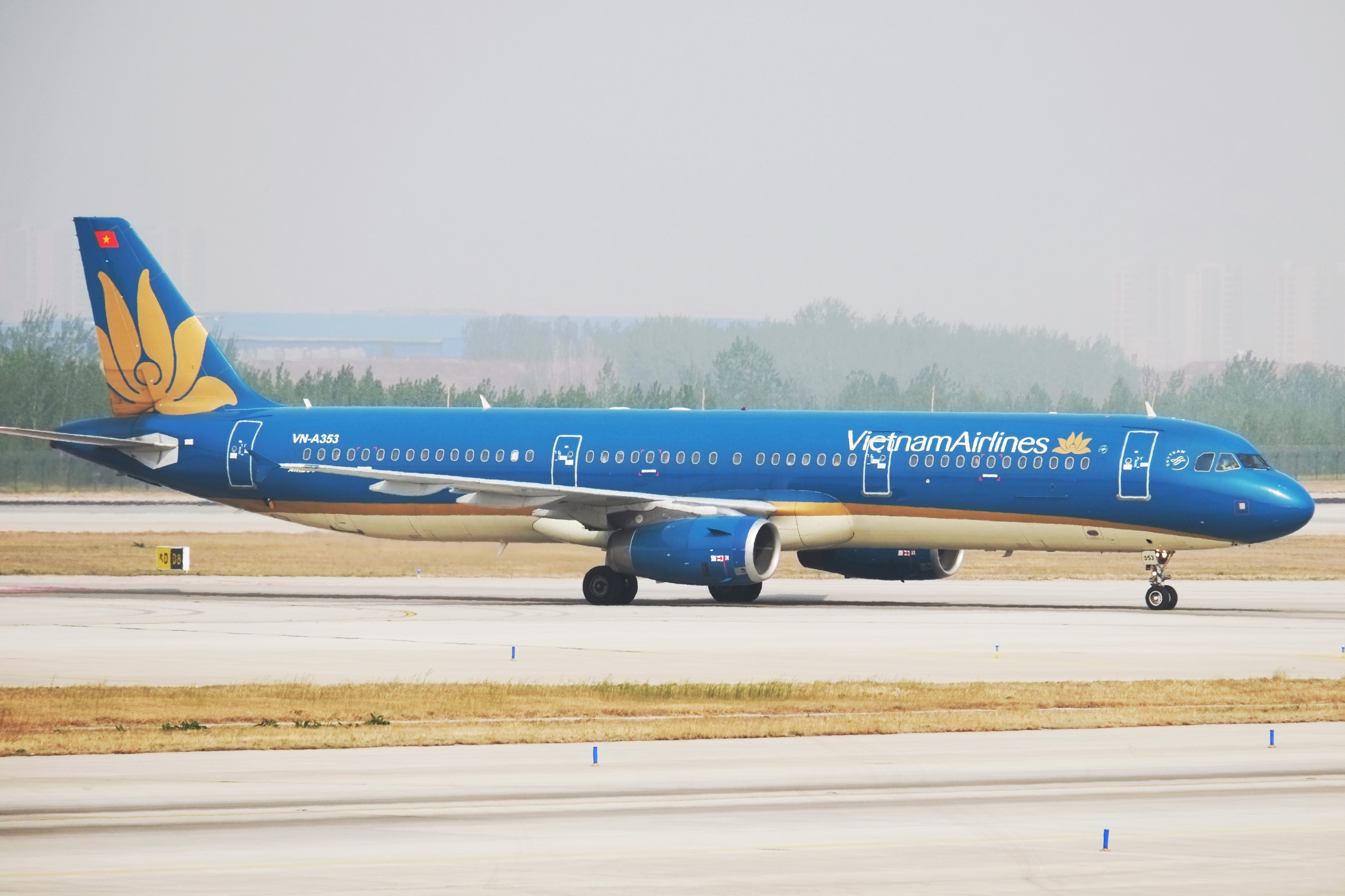 VN-A353 on flight VN704 from Nha Trang landing at CGO